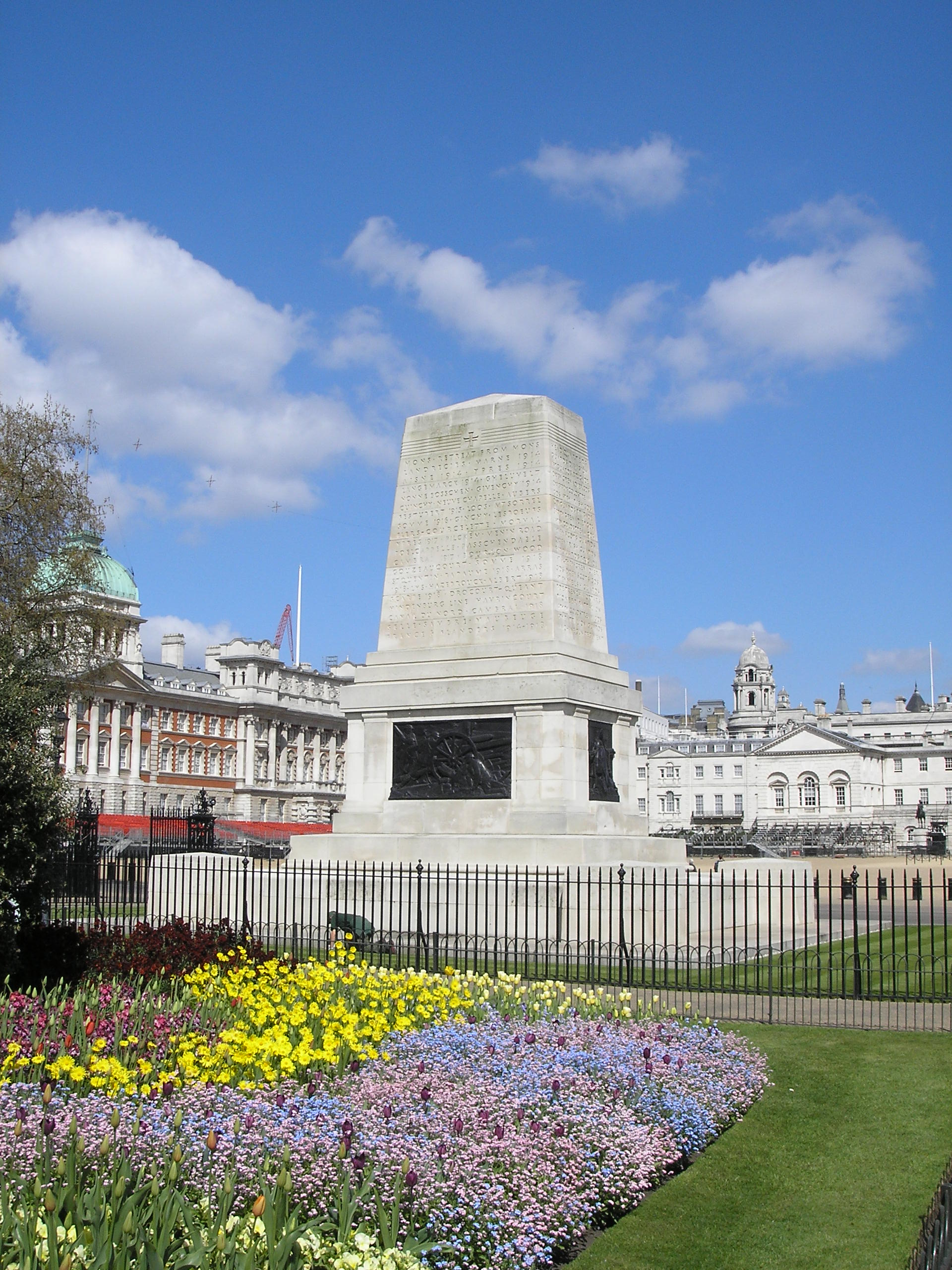 The Guards' Memorial - sculptor: Gilbert Ledward 1923-26 . A memorial to commemorate the First Battle of Ypres and other battles of World War I, situated at Horse Guards Parade at the entrance to St. James's Park in London.